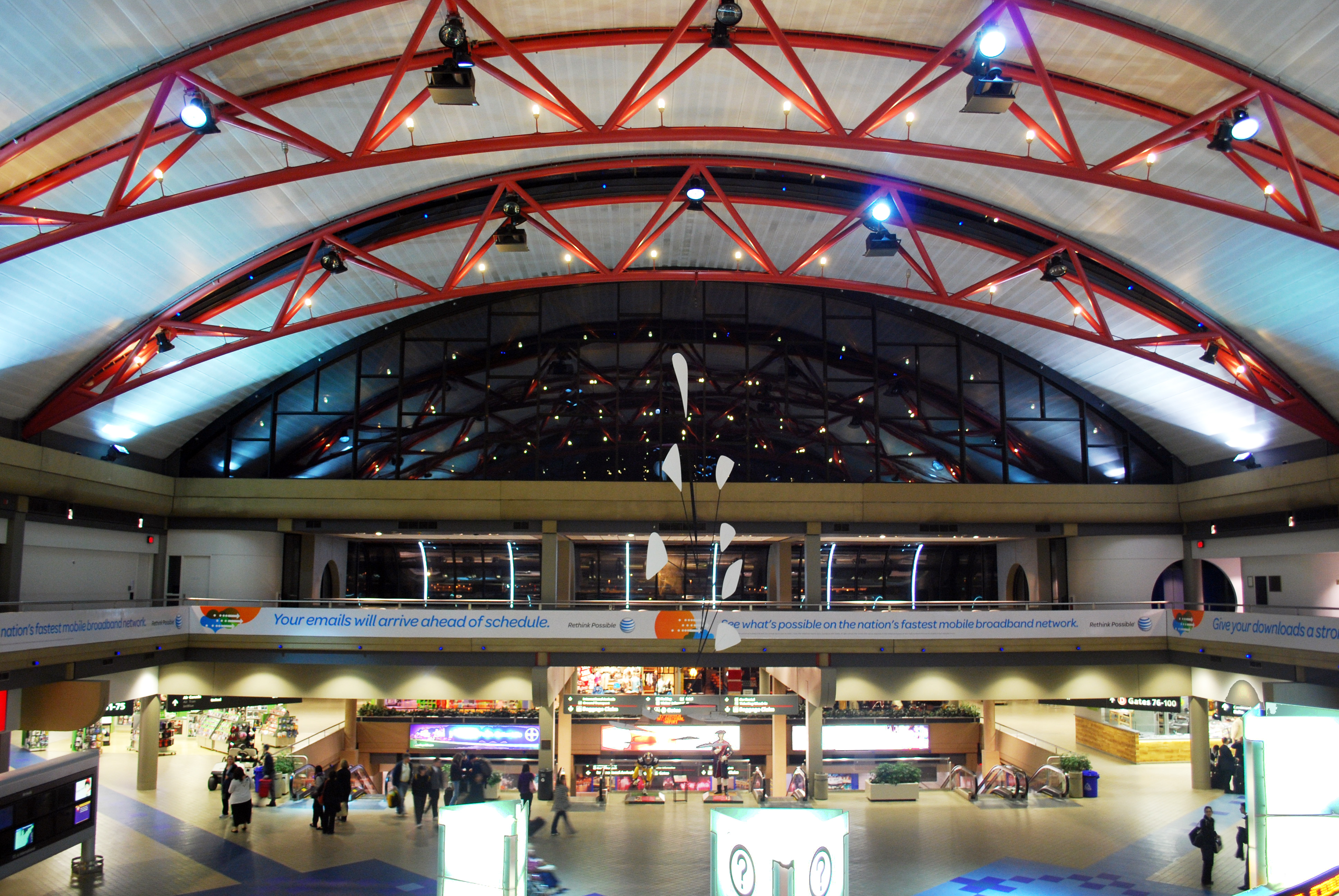 An early morning view of the Pittsburgh International Airport Airside Terminal core from the mezzanine level. Alexander Calder's Pittsburgh mobile is visible in the center of the image.